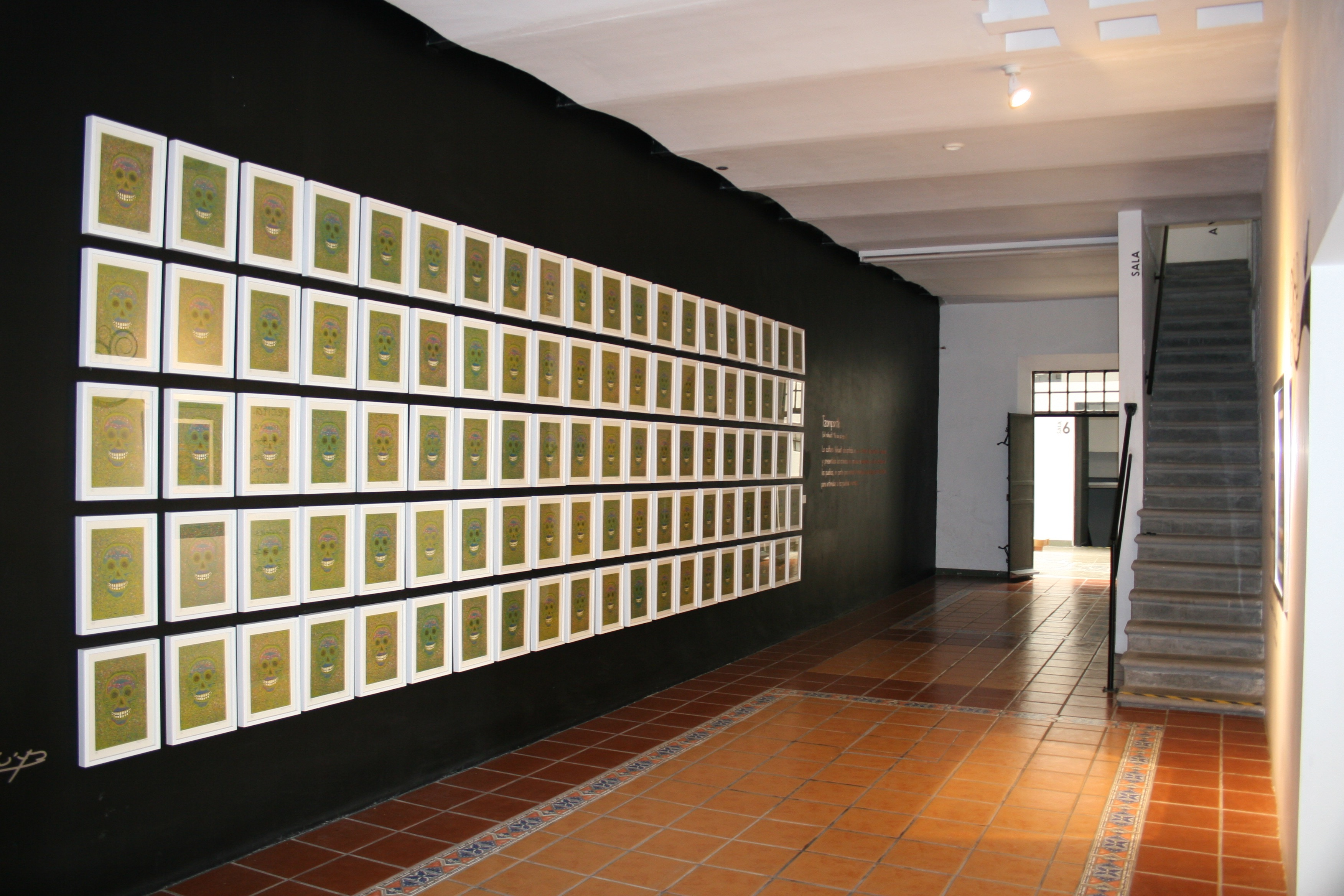 Sala la muerte